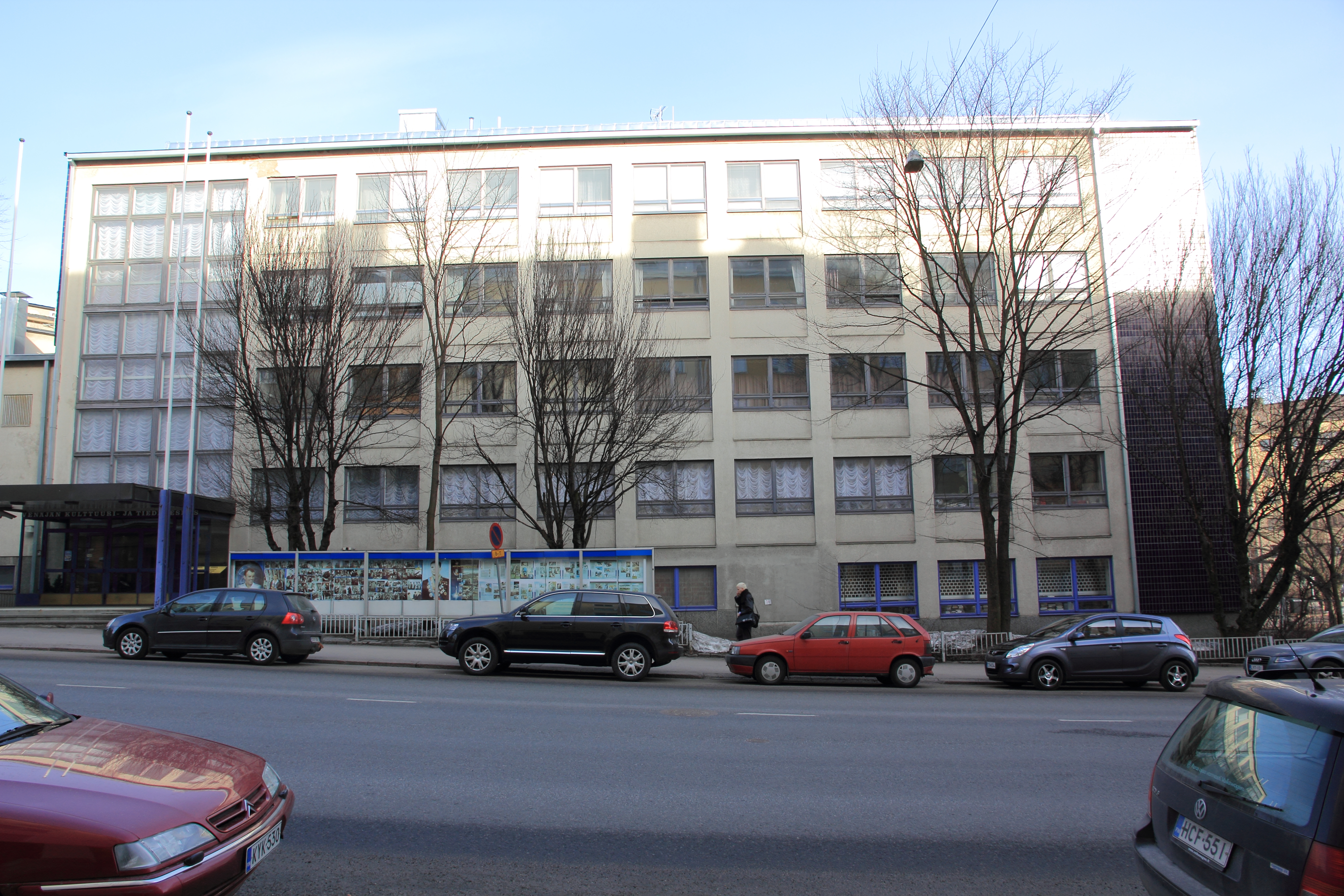 Russian Centre of Science and Culture in Helsinki, address Nordenskiöldinkatu 1.